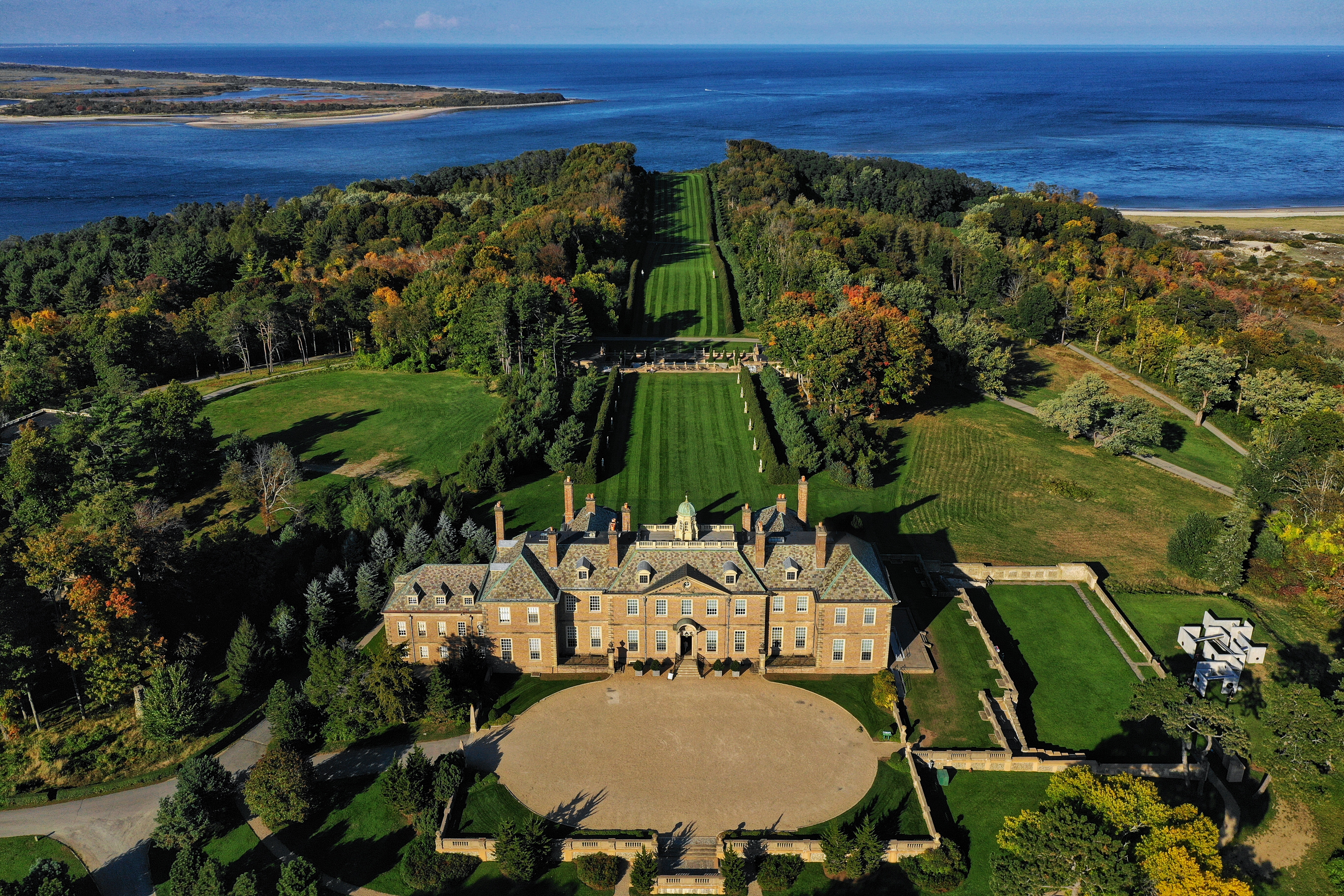 Aerial view of Castle Hill, Ipswich, Massachusetts